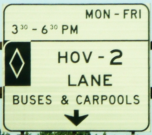 HOV 2+ lane on Interstate I-270 towards Frederick, Maryland, US.